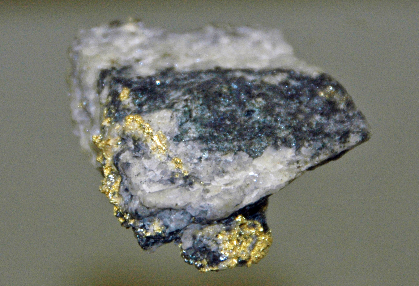 Gold-bornite-quartz hydrothermal vein from Georgia, USA. (public display, Leadville Mining Museum, Leadville, Colorado, USA) This is a gold ore sample from Georgia's Dahlonega Mining District. The whitish-gray material is quartz (SiO2 - silicon dioxide). The dark iridescent blue material is bornite (Cu5FeS4 - copper iron sulfide). The metallic yellowish material is native gold (Au). Locality: Field's Vein, Dahlonega Mining District, Dahlonega Gold Belt, Lumpkin County, Georgia, USA